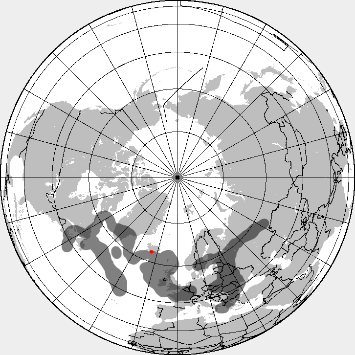 This map shows the Icelandic volcanic ash cloud that closed European air space as of 21 April 2010 at 18:00 UTC. Based on Updates: Editable XCF version: File:Eyjafjallajökull volcanic ash 21 April 2010.xcf Previous map